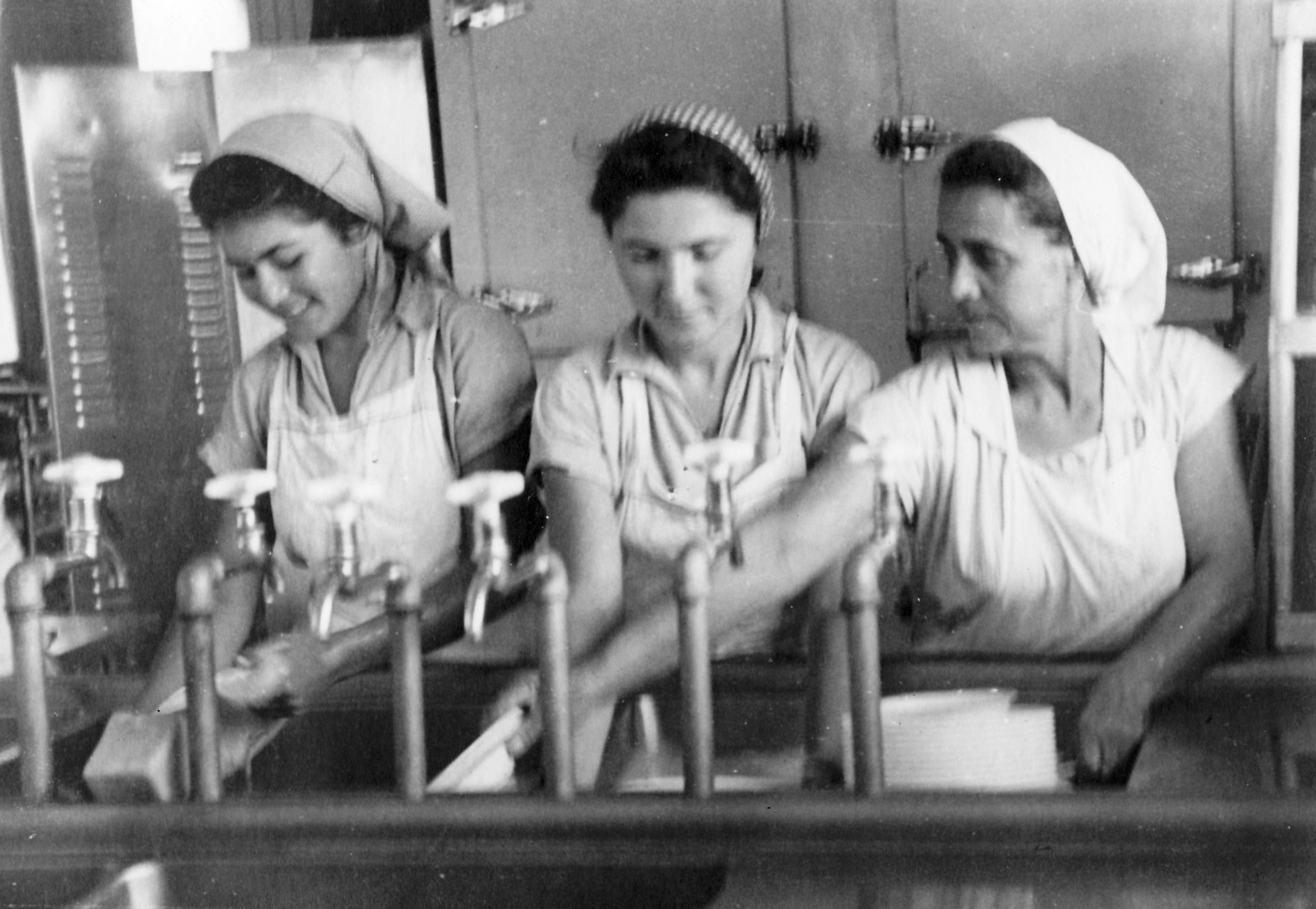 Gan Shmuel - in the kitchen 1956, Econimy of Israel